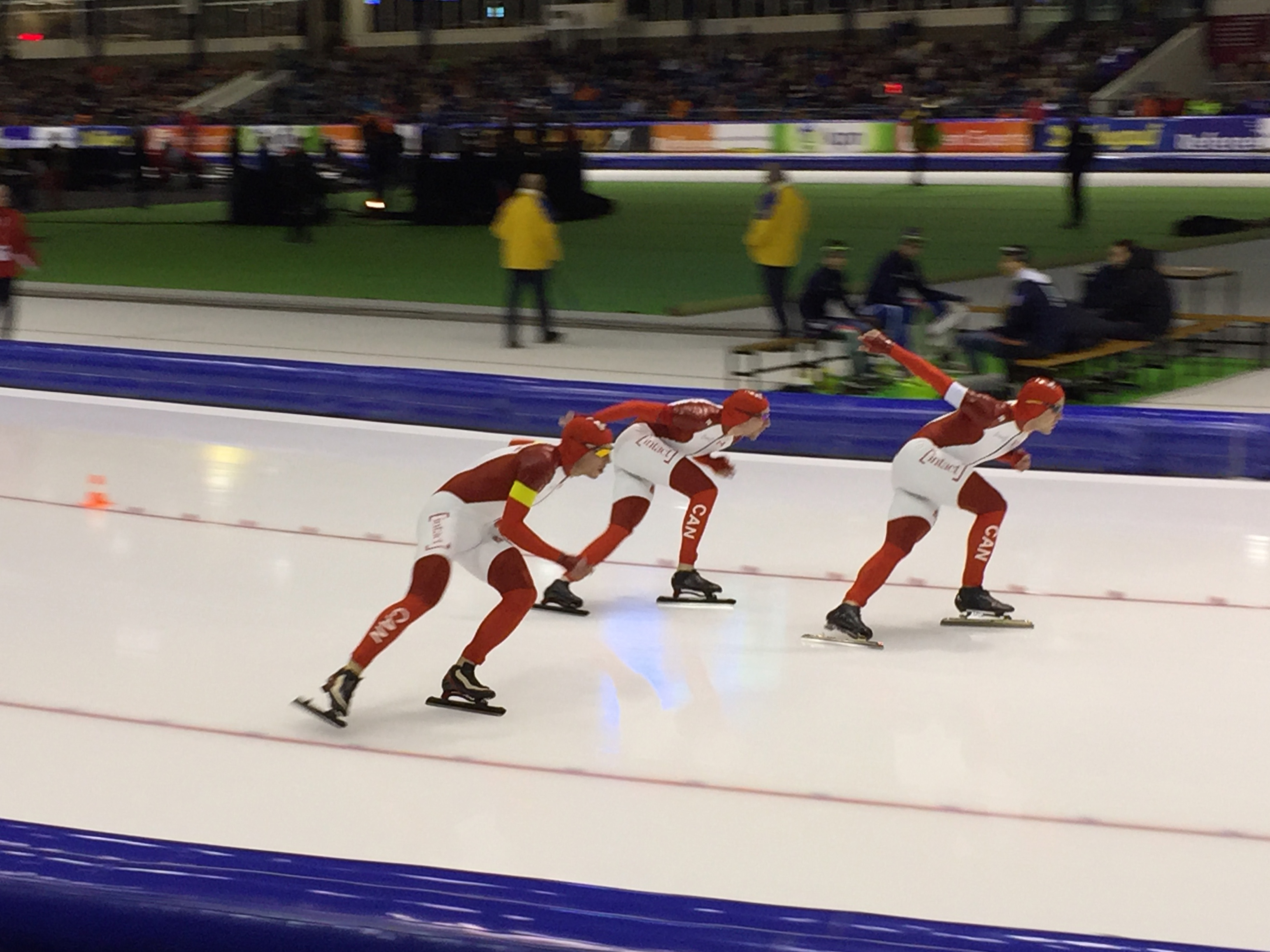 2015 World Single Distance Speed Skating Championships, mens team pursuit (4). Team Canada Jordan Belchos Ted-Jan Bloemen (in the middle) Denny Morrison 3.44